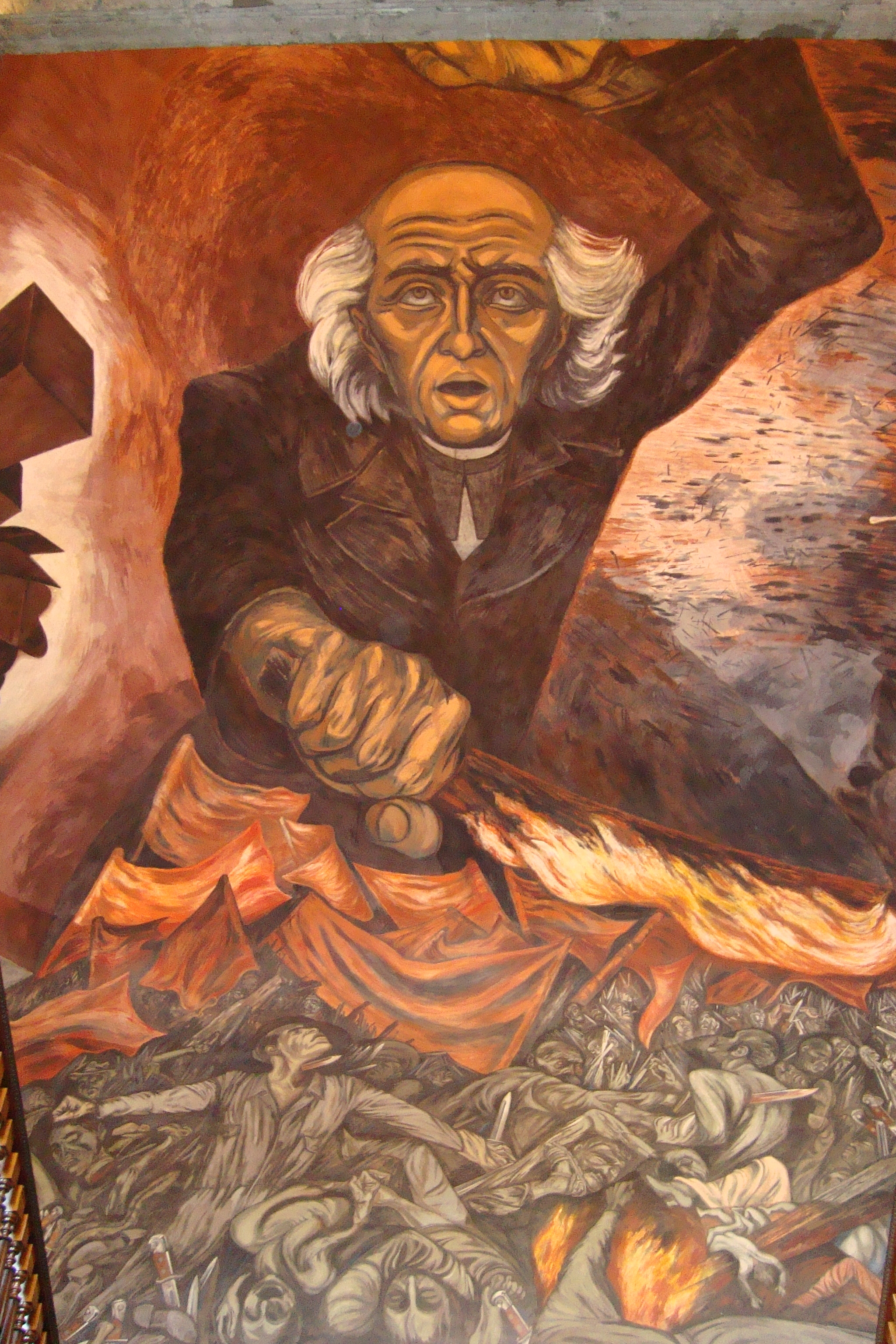 Padre Miguel Hidalgo, paintet by José Clemente Orozco in the Palacio de Gobierno, Guadalajara